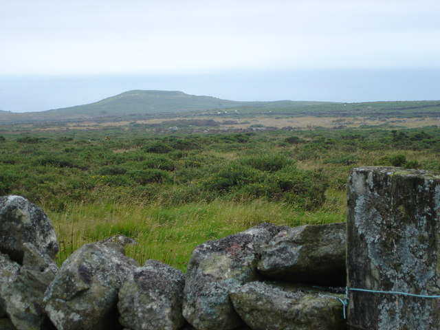 A Hill Fort Looking from the track across this flat square containing numerous remains of stone circles, cairns and stones, the Hill Fort of Pen Y Dinas keeps lonely watch now.